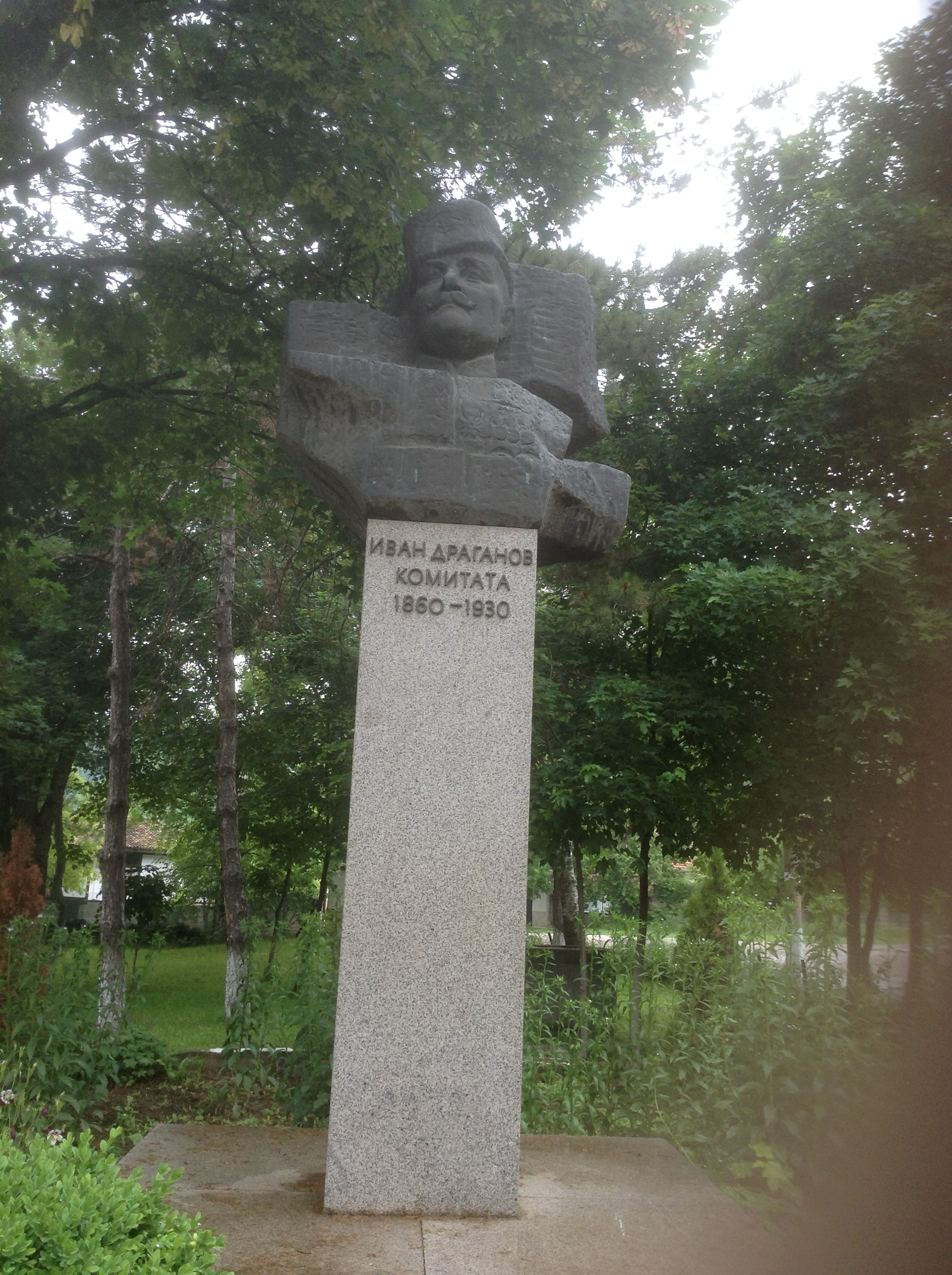 Ivan Draganov memorial in village of Svalenik, Bulgaria.